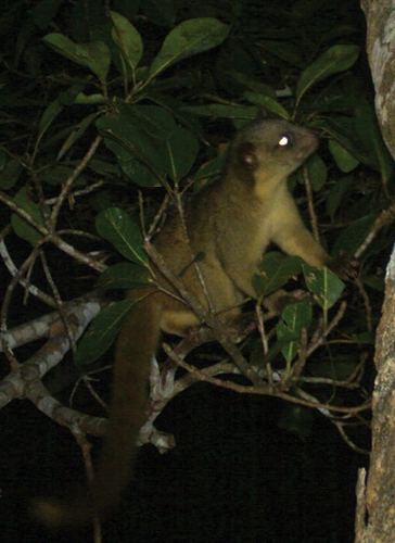 Eastern Lowland Olingo, Bassaricyon alleni, in life, in the wild. La Esperanza (Distrito de Yambrasbamba, Provincia de Bongará, Departamento Amazonas), 2000 m, northern Peru; Middle, color camera trap photo in forest canopy, from confluence of the Camisea and Urubamba Rivers (11°42'S, 72°48'W). Peru.